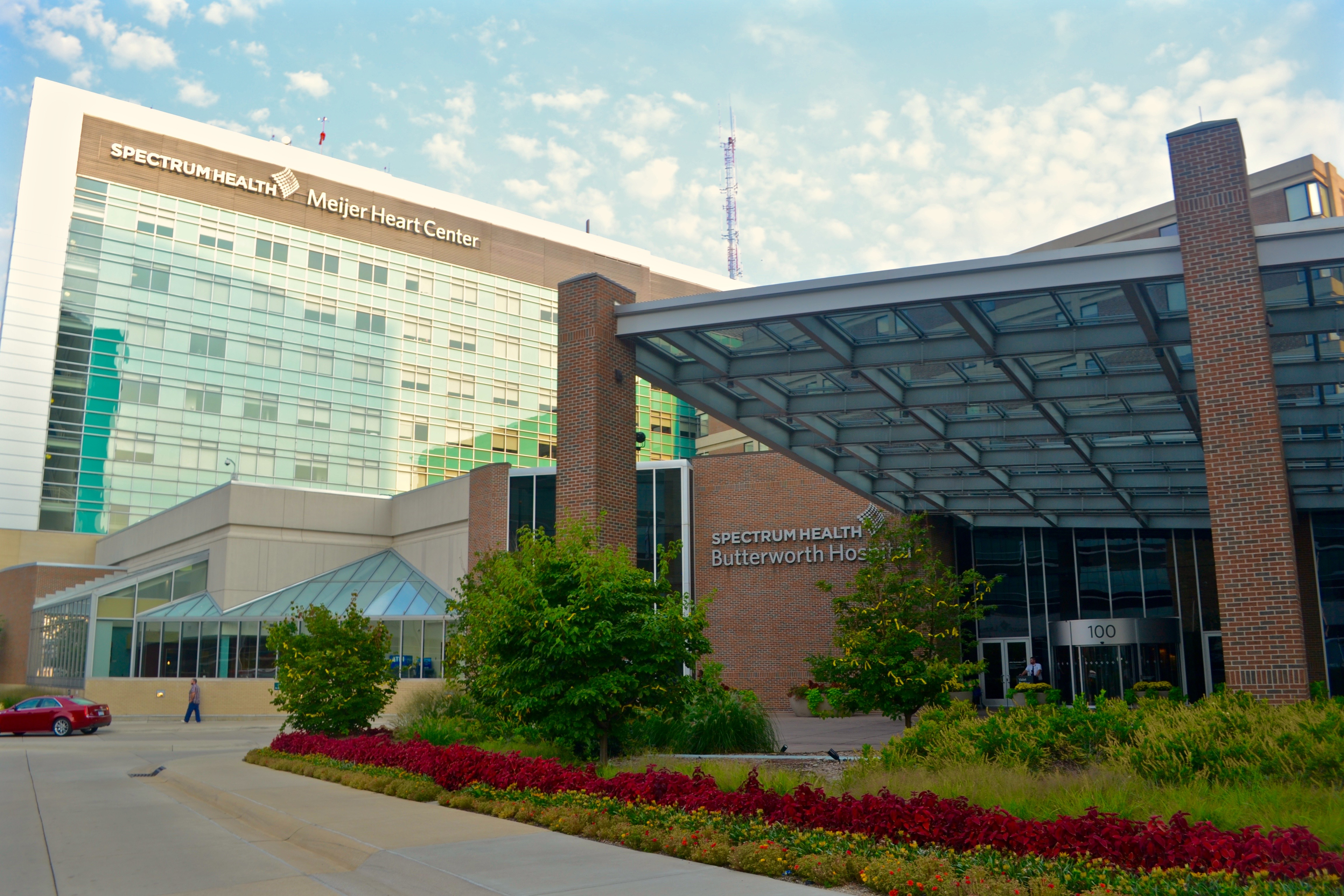 Entrance to Butterworth Hospital in Grand Rapids, Michigan.